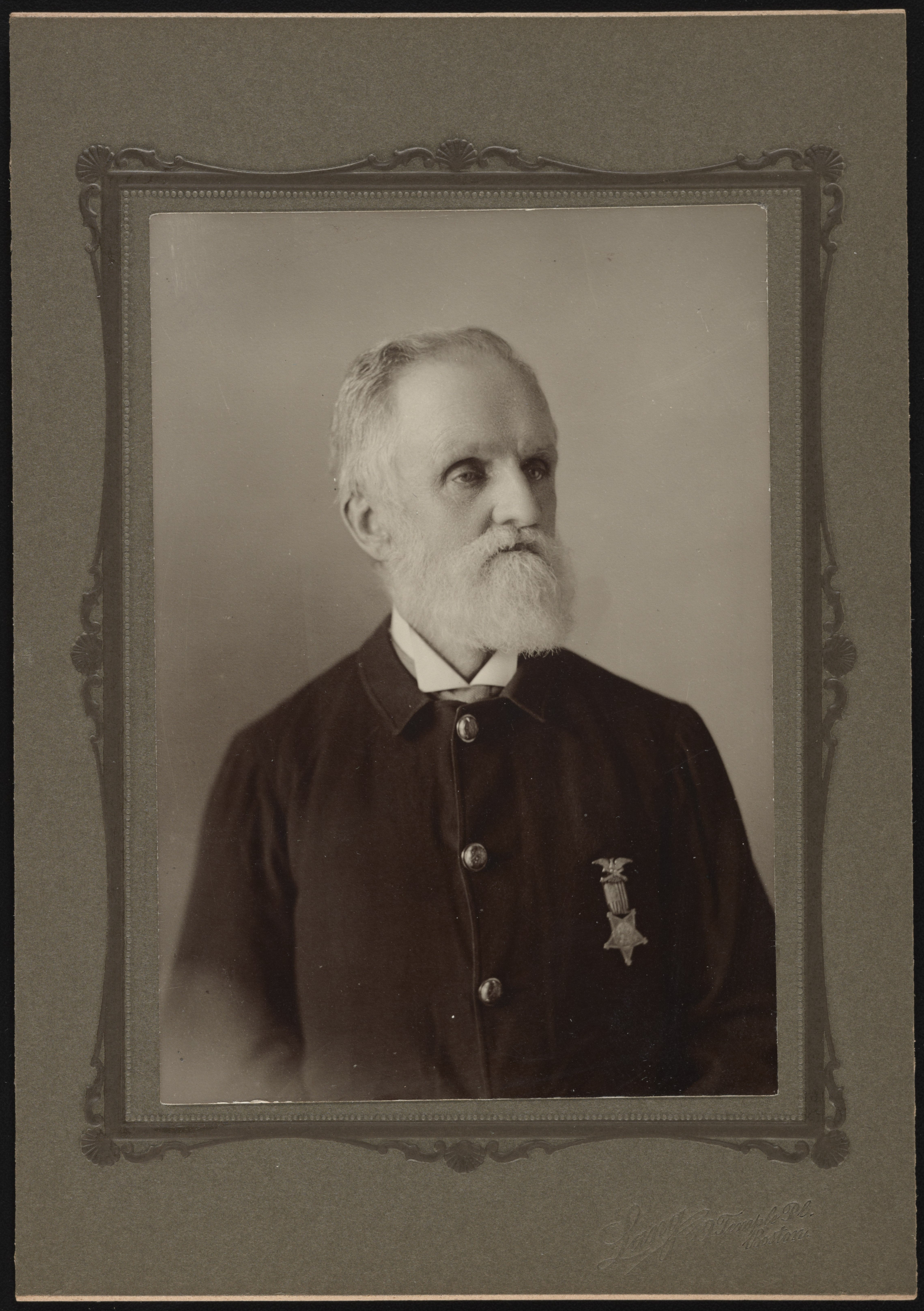 Title: Civil War veteran Charles B. Lovell] / Lang, Temple Pl., Boston Abstract/medium: 1 photograph : print ; sheet 14 x 10 cm, mount 21 x 14 cm.